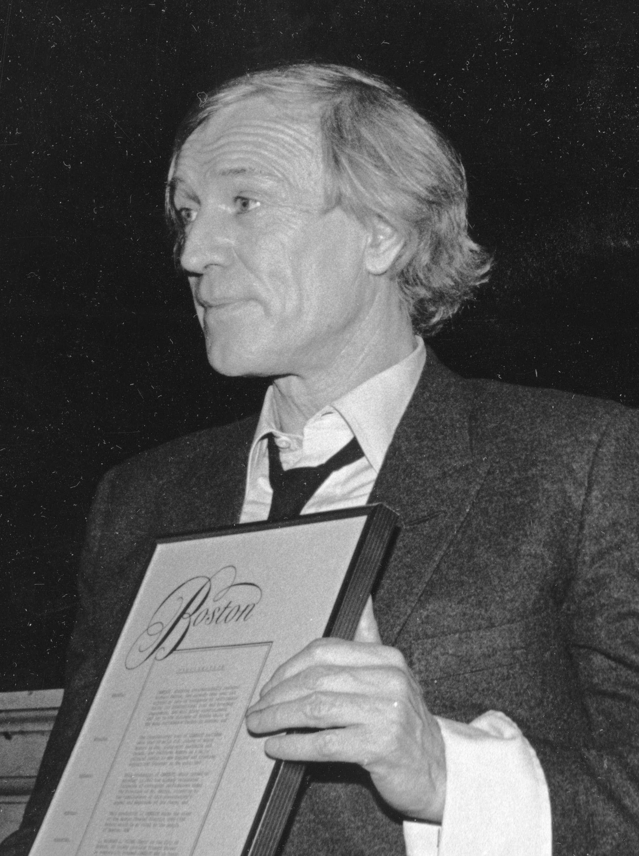 Actor Richard Harris in 1985.